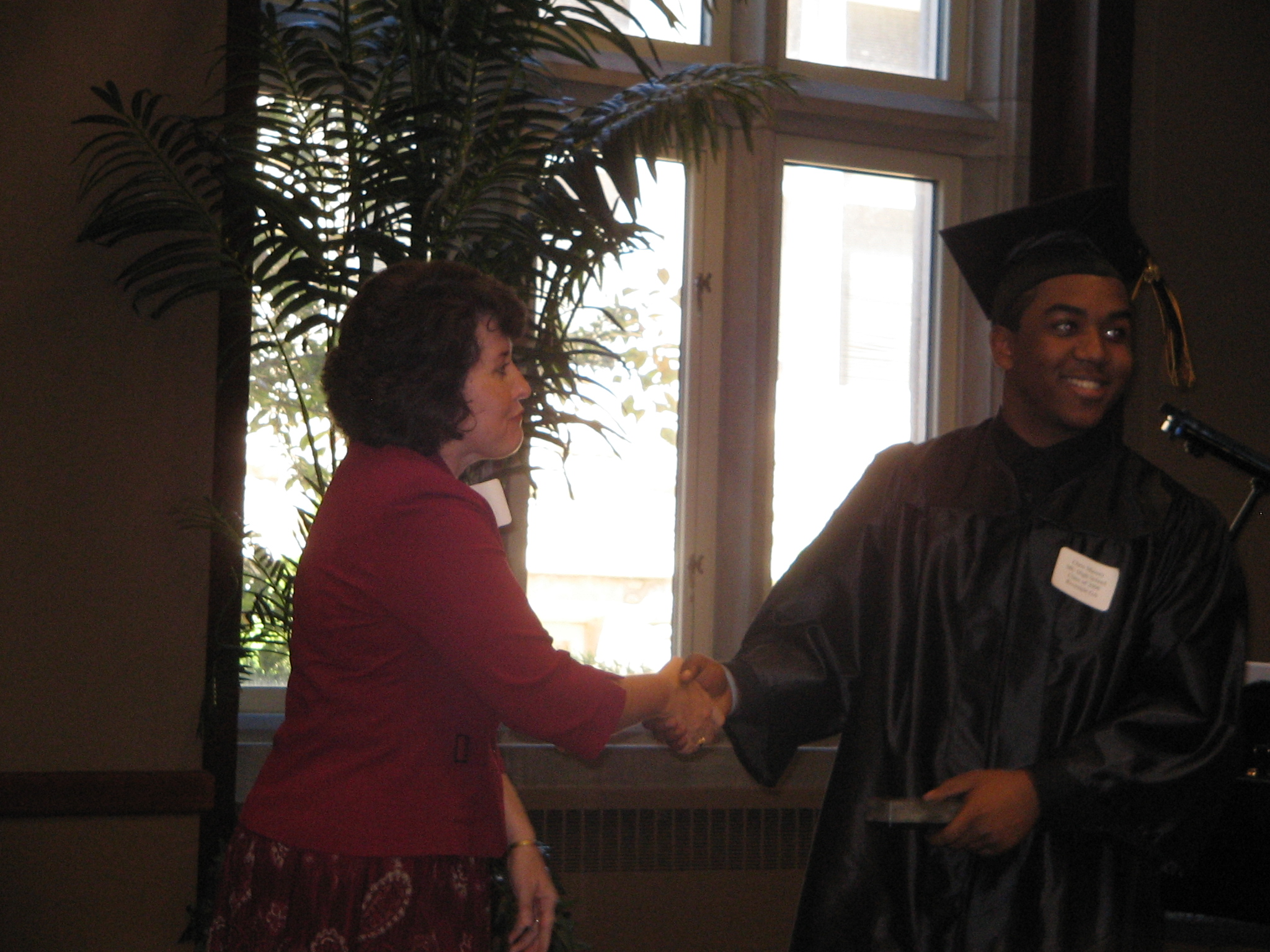 Christopher Massey graduating High School. The woman is the principal handing him a pen as a gift of the school. He should have received the diploma previously.